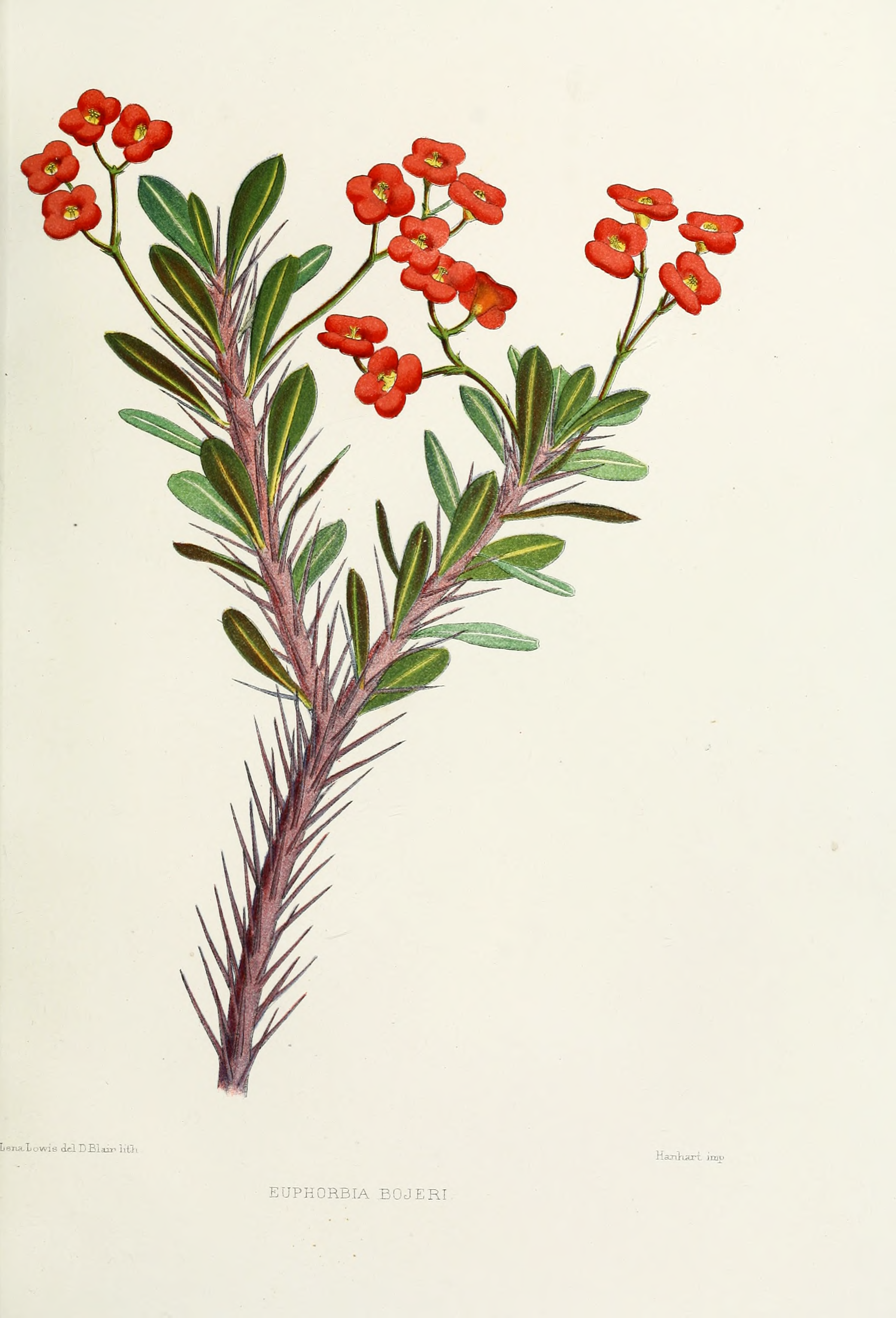 Colour drawing of euphorbia from Familiar Indian Flowers (1878) by Lena Lowis.